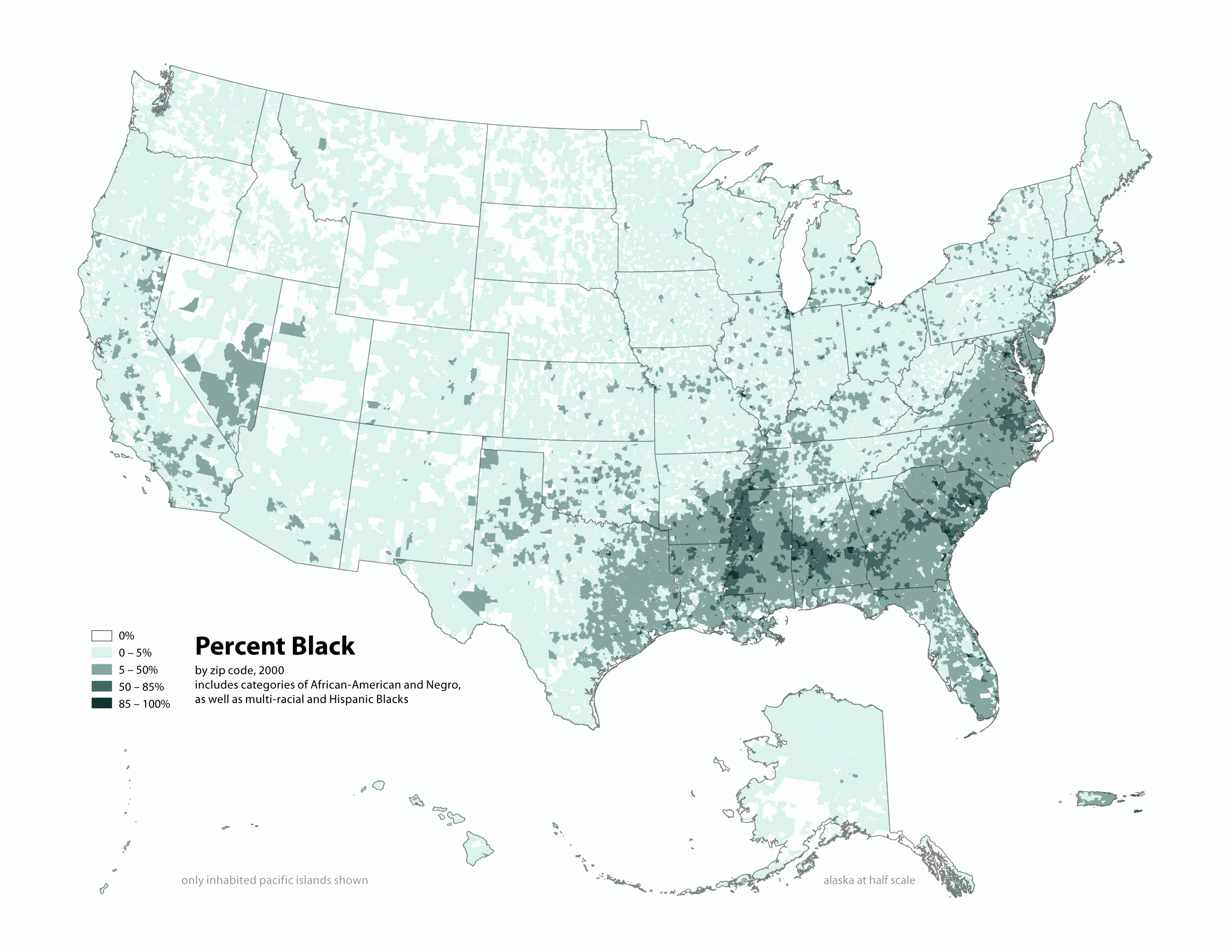 Map of contiguous US, showing percentage of population self-reported as "Black," by census tract, 2000. Data source: US Census.